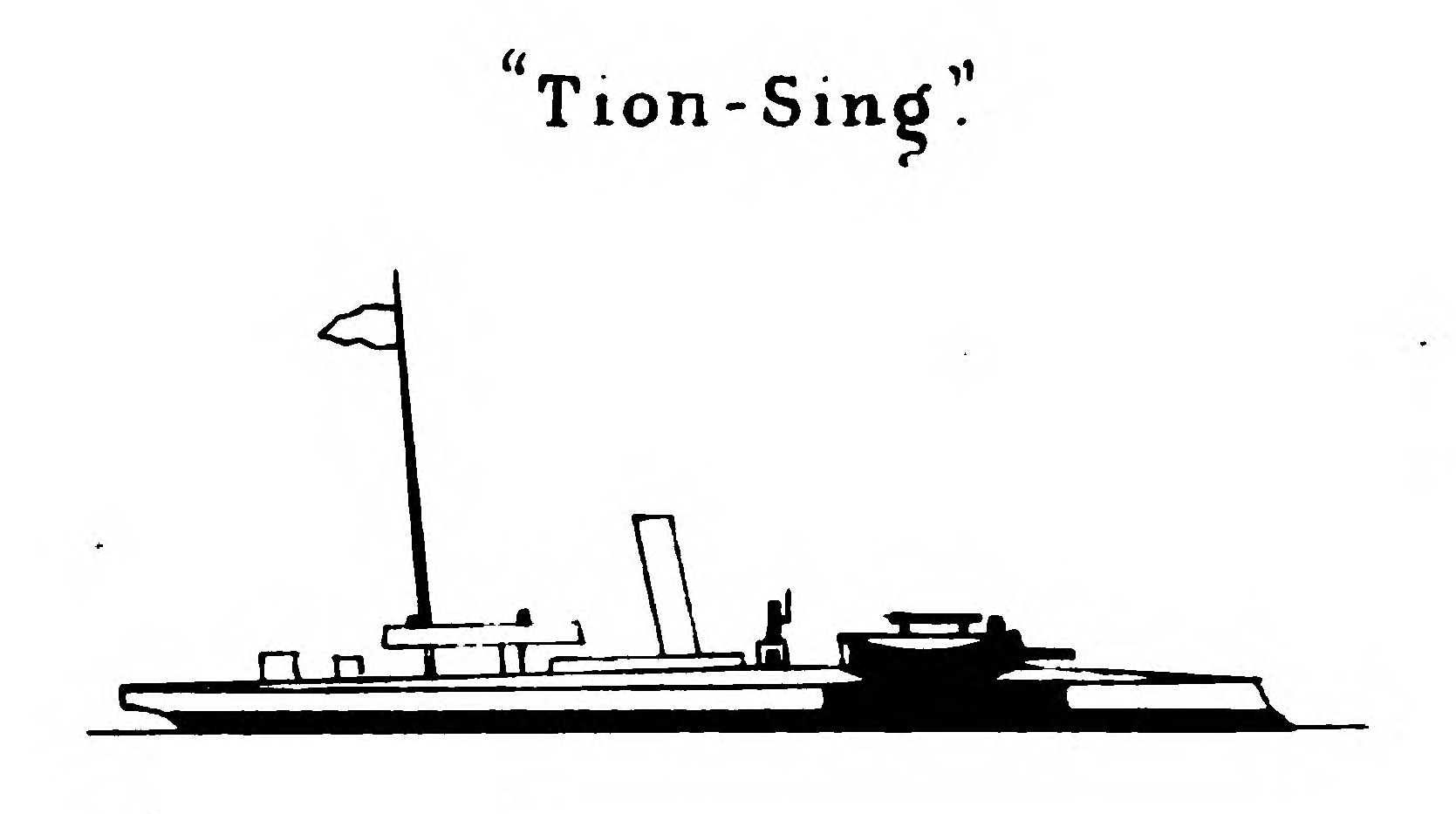 The Chinese ironclad Tien-Sing, launched in 1875.